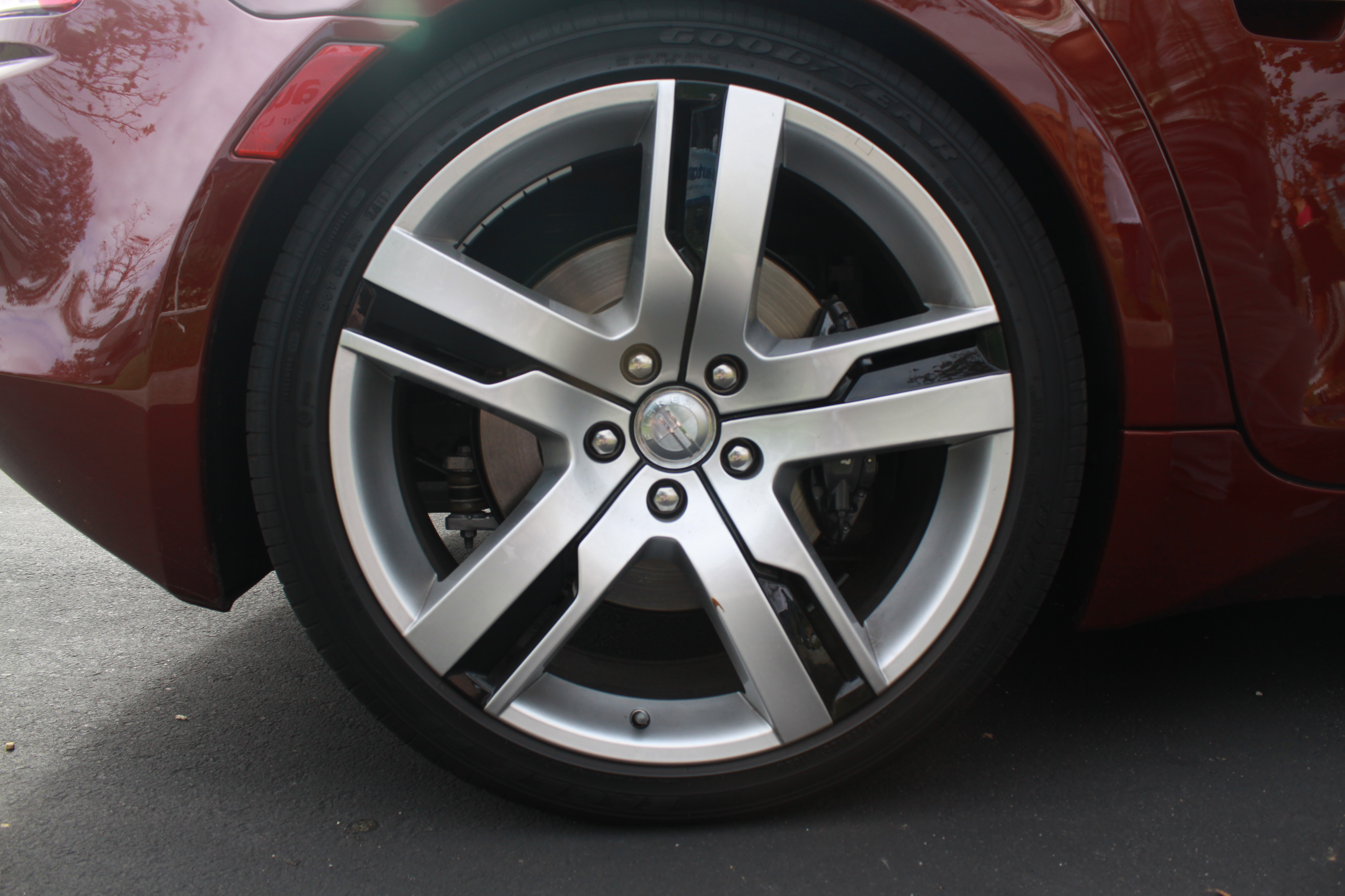 Fisker Karma alloy Wheels